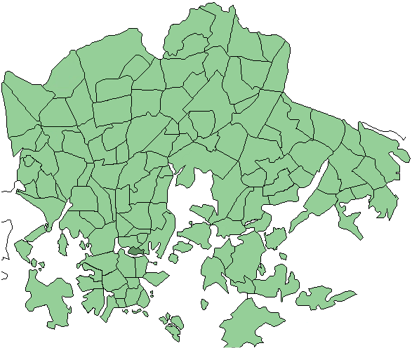 Districts of Helsinki, Siltasaari highlighted